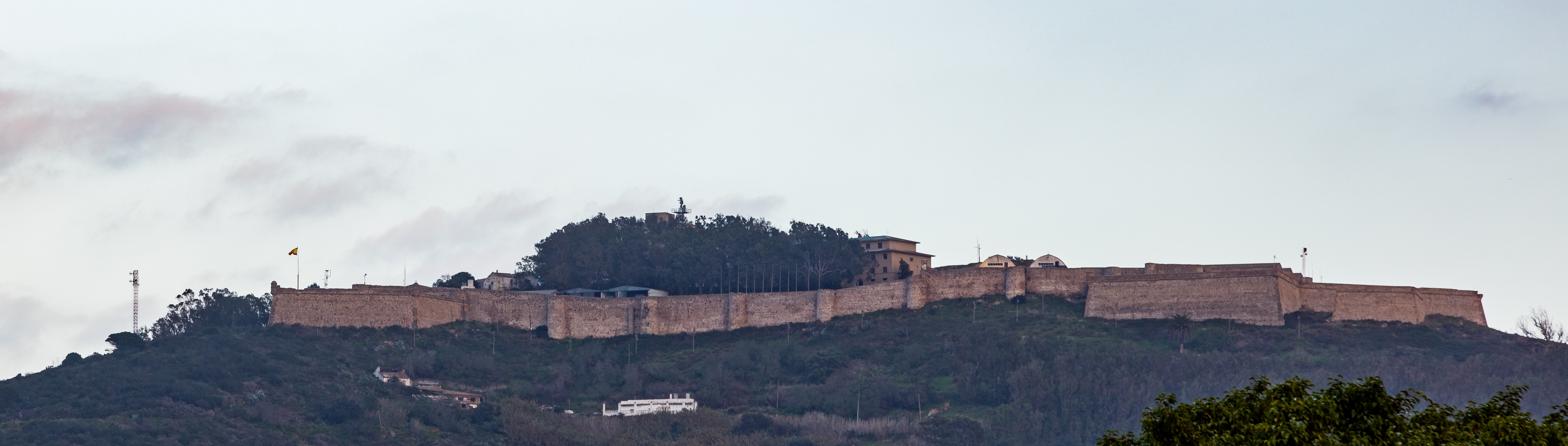 Fortress of Monte Hacho, Ceuta, Spain